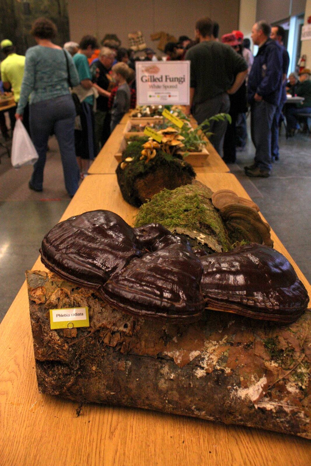 Although there is a marketplace (last year seemed to mostly have mushroom-related crafts and some mushroom growing kits), the show is more focused on education and appreciation than wild mushroom commerce. Last year, some friendos of mine went thinking it would be maybe like our local chocolate fest (where you can sample and buy lots of varieties) but that's not quite the angle. However, I think they still enjoyed themselves, and if you are curious about all things mushroom, you probably will too. See more mushroom events in the Seattle area here